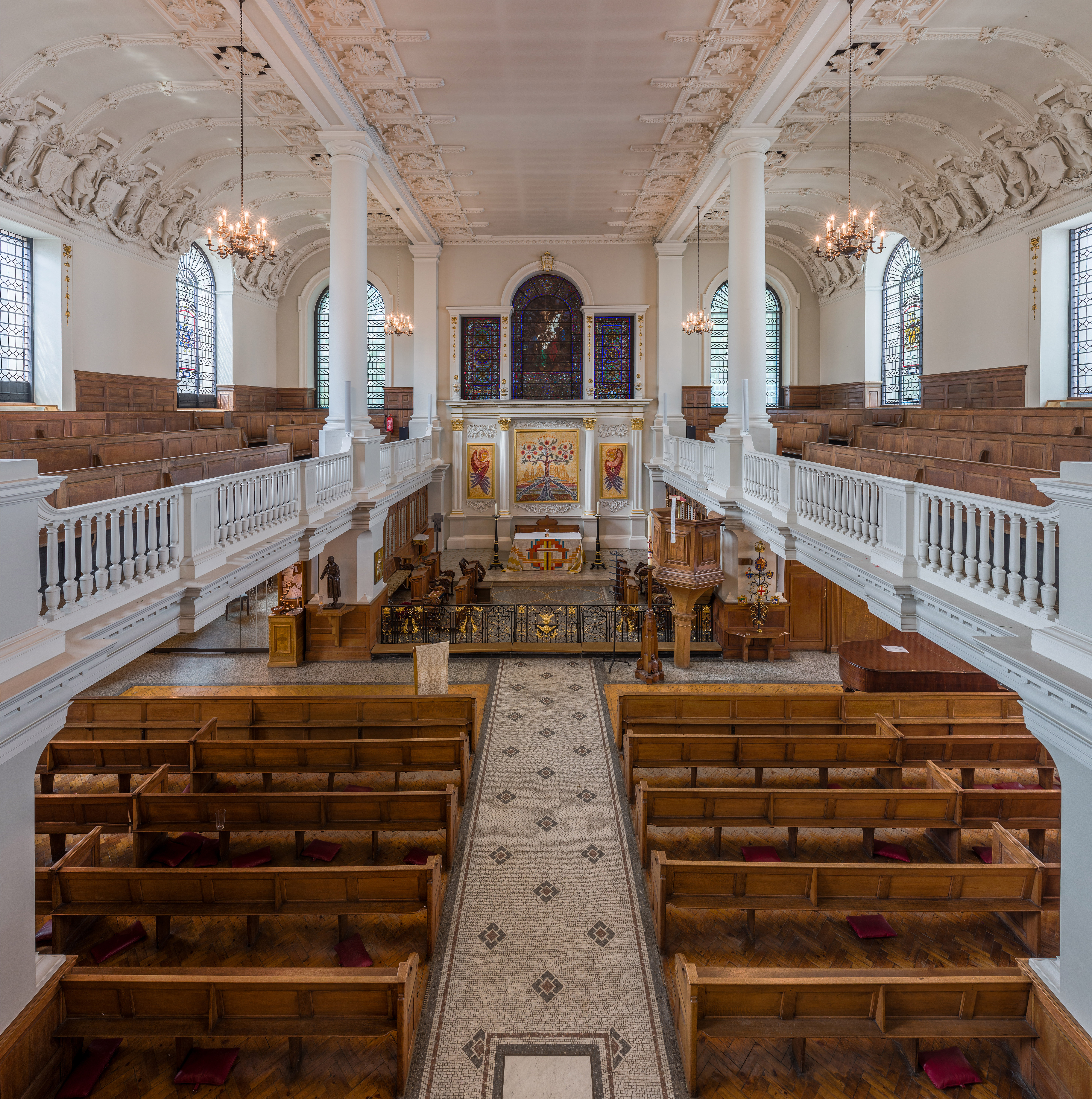 A view of the interior of St Botolph's Aldgate from the gallery.